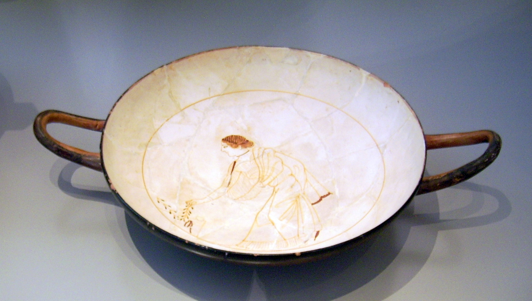 Attic white-ground drinking cup (Kylix), Girl lays branches on an altar, about 470/60 BC., diameter 14cm, not attributed to a painter, Antikensammlung Berlin im Alten Museum, Inventarnummer V.I. 3408 (CVA Berlin 3; ARV 774).